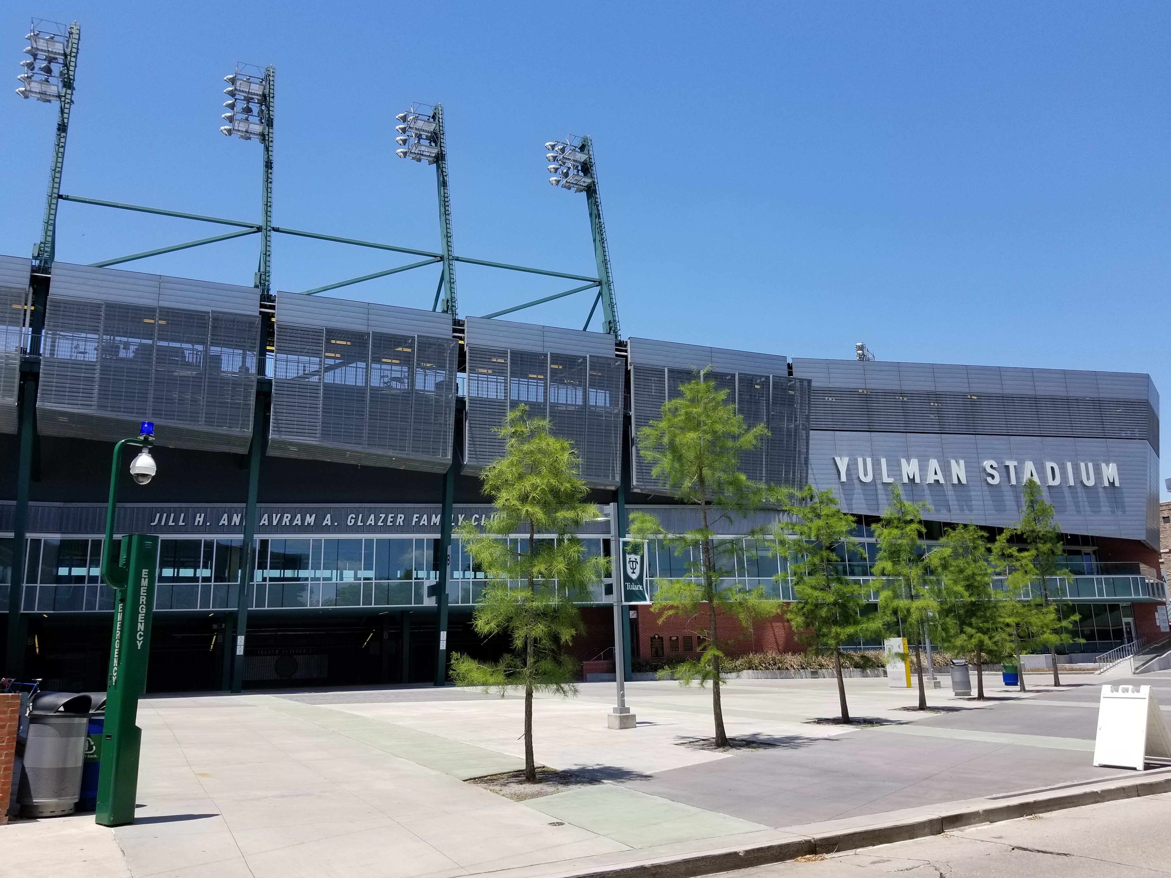 Benson Field at Yulman Stadium (New Orleans)